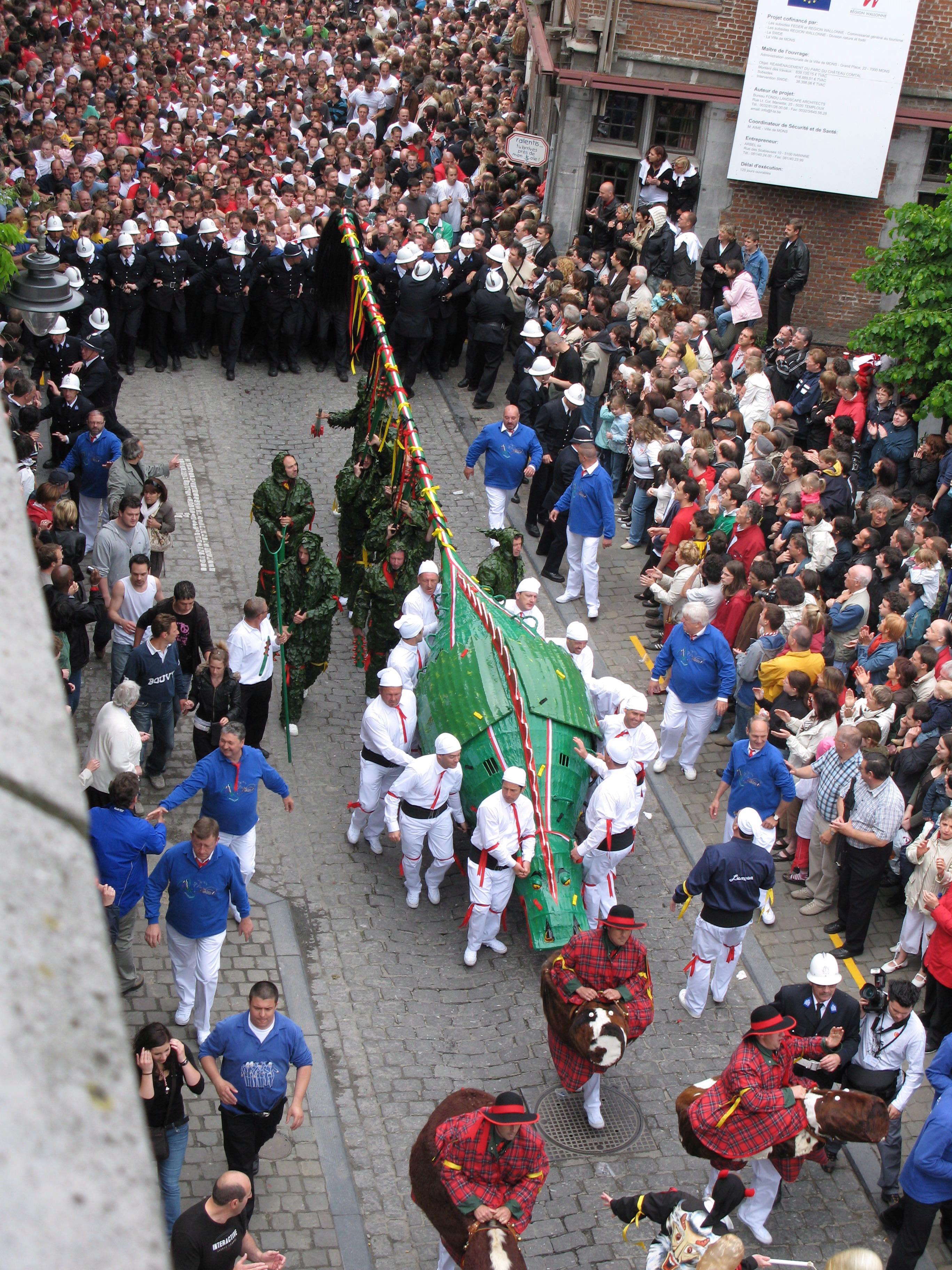 The Doudou, folkloristic representation of the dragon of Saint George in the city of Mons, Belgium